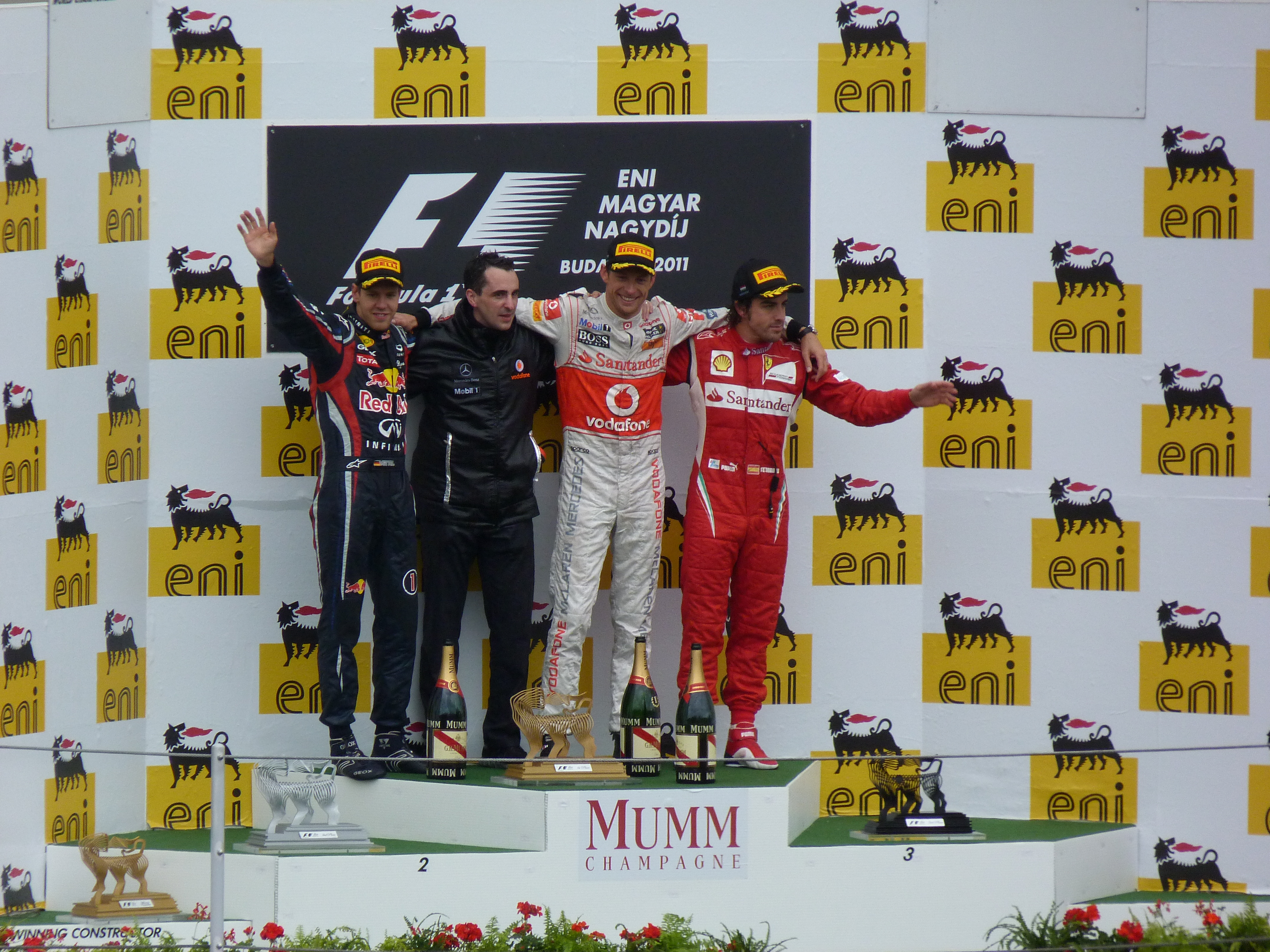 Live on the 31 st of July, 2011. Hungaroring, Mogyoród, Hungary. The 26 th Formula 1 Hungarian Grand Prix started at 2 pm. Schmitt Pál, President of Hungary. Budapest has always been special place for Jenson Button: it was here that he took his first Grand Prix win five years ago - and it is here that he has taken victory in his 200th Grand Prix. Red Bull's Sebastian Vettel stretched his commanding lead in the championship with a second-place finish in wet conditions Sunday.